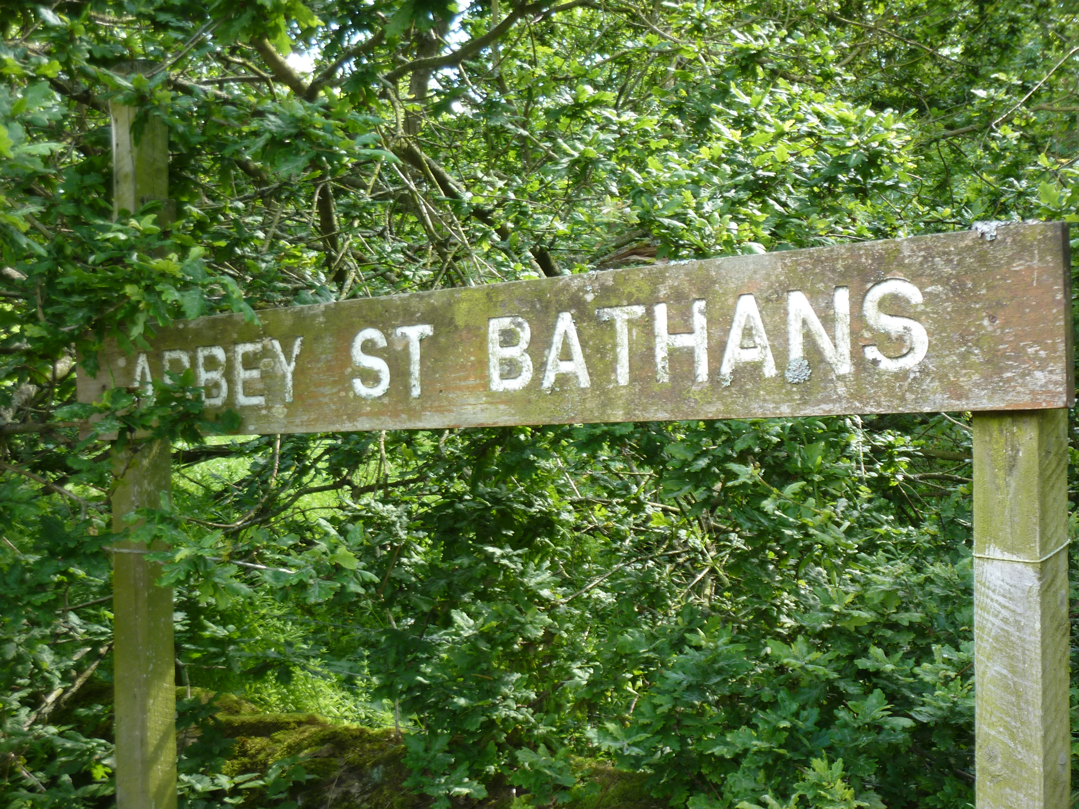 This is the last settlement of any kind on the Southern Upland Way. There's very little actually here - just some houses, a restaurant/art gallery (open daytimes only) and a church. There was once a youth hostel here, but it's long gone. Day 17 of the Southern Upland Way blogged about at .uk/southernuplandway/day17